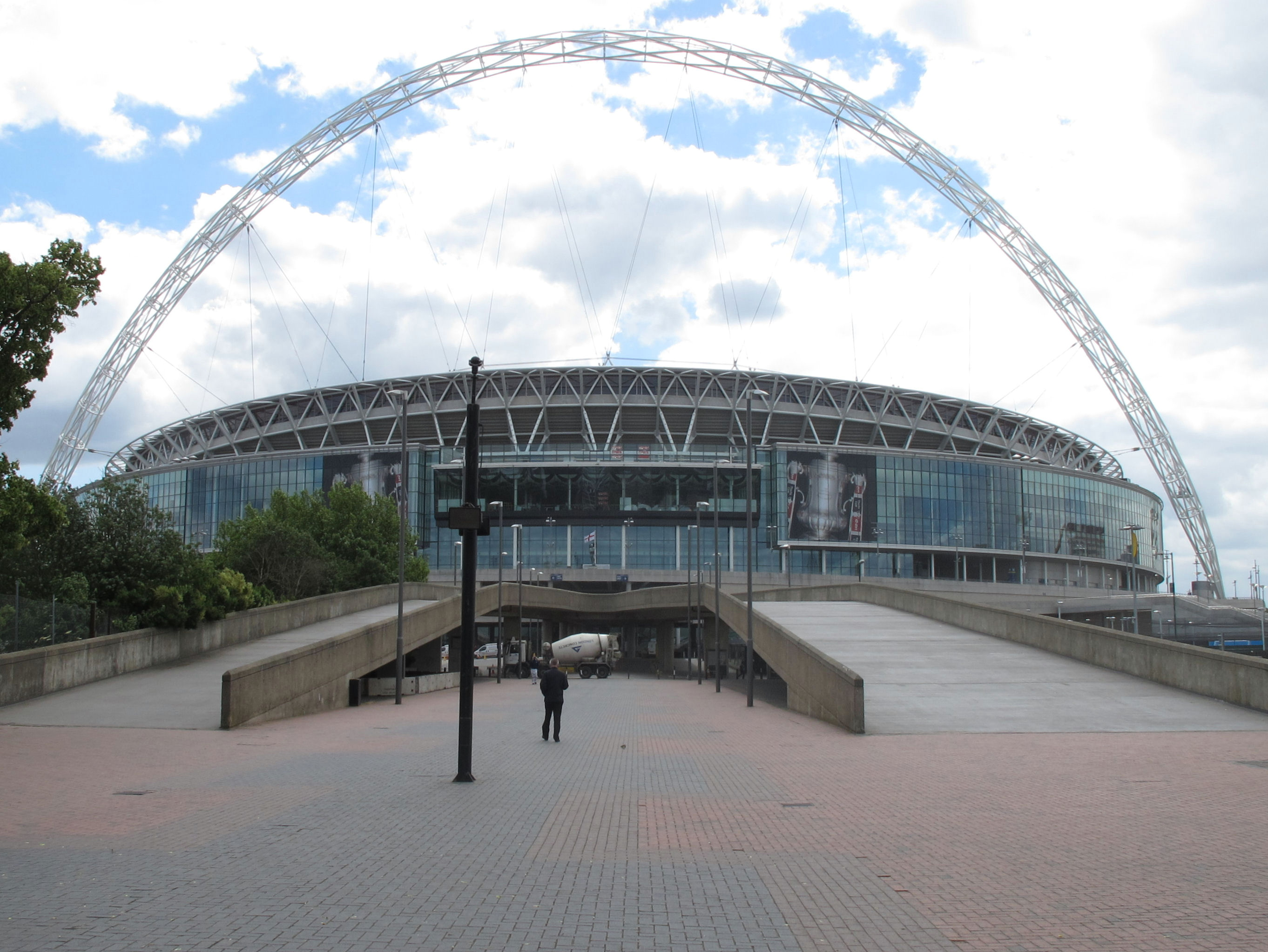 This photo is for BBC Domesday Reloaded as a recreation of a 1986 photo of Wembley Stadium from Olympic way showing the former stadium with the twin towers.